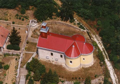 Mátraverebély, Hungary, aerialphotography